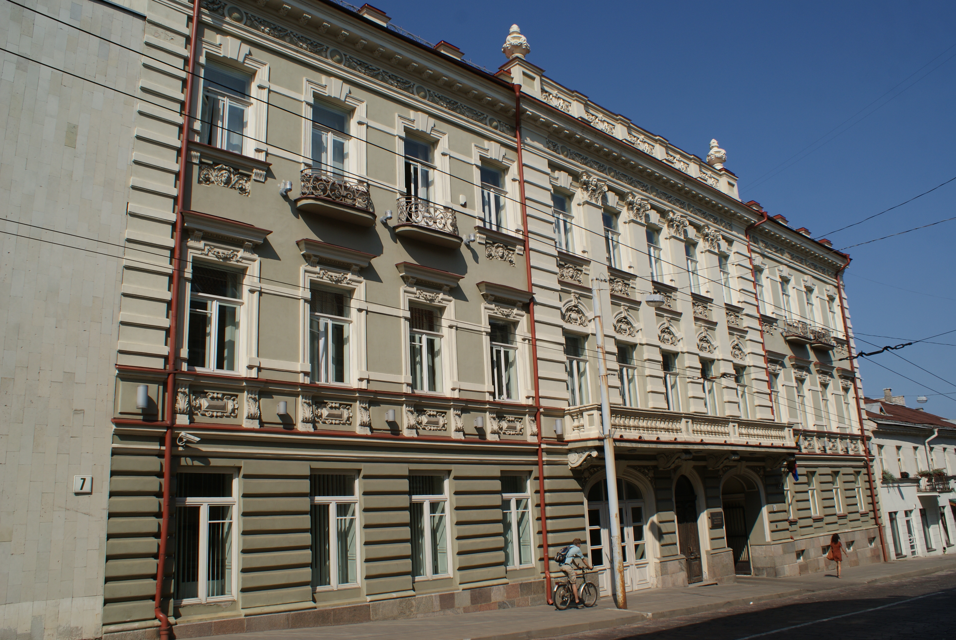 Vilnius street